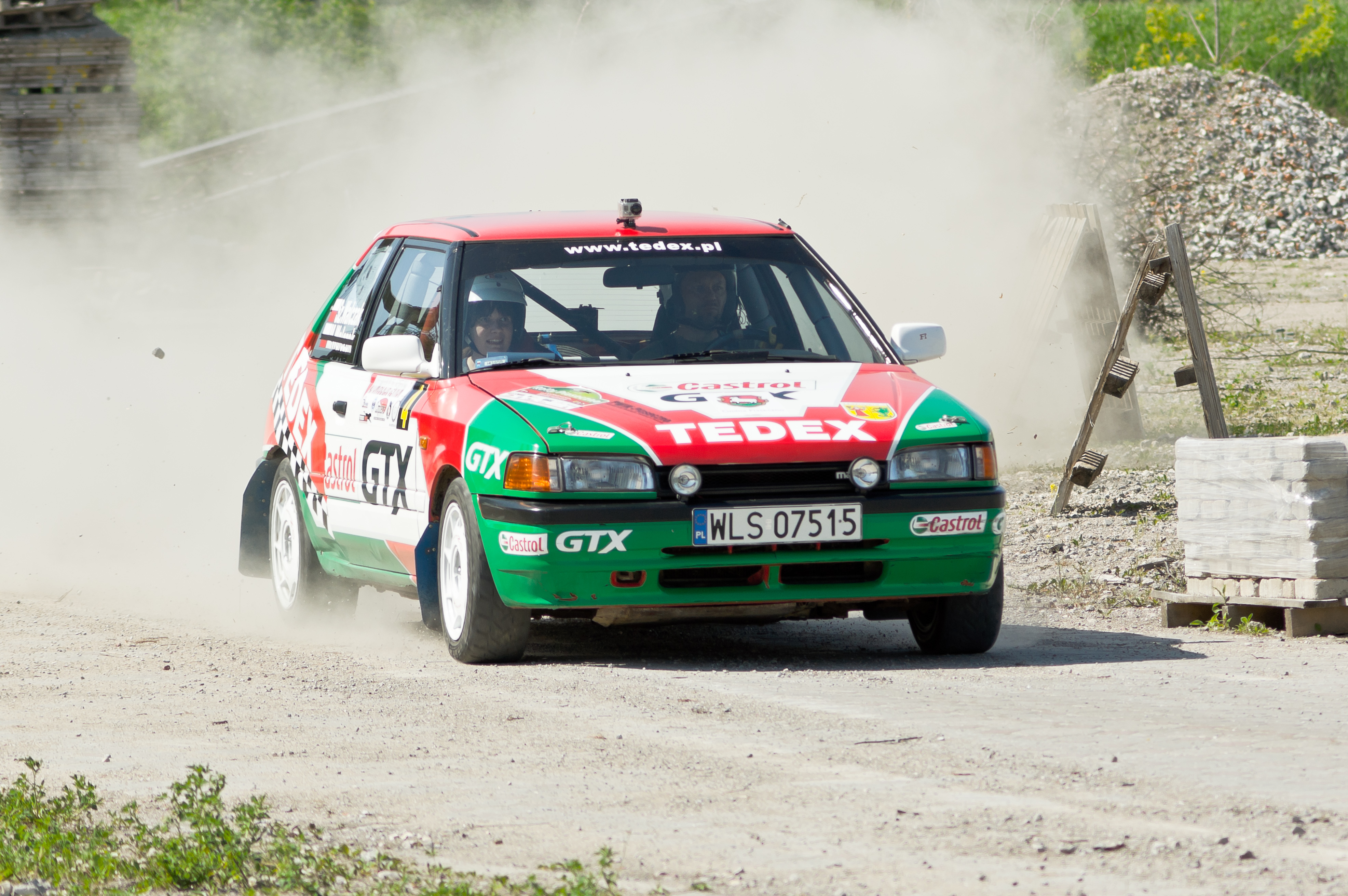 VII Rally Piaseczno 2012, SS Gąski, Poland. Mazda 323, no. 4, driver: Mariusz Walczak, co-driver: Anna Bruc.